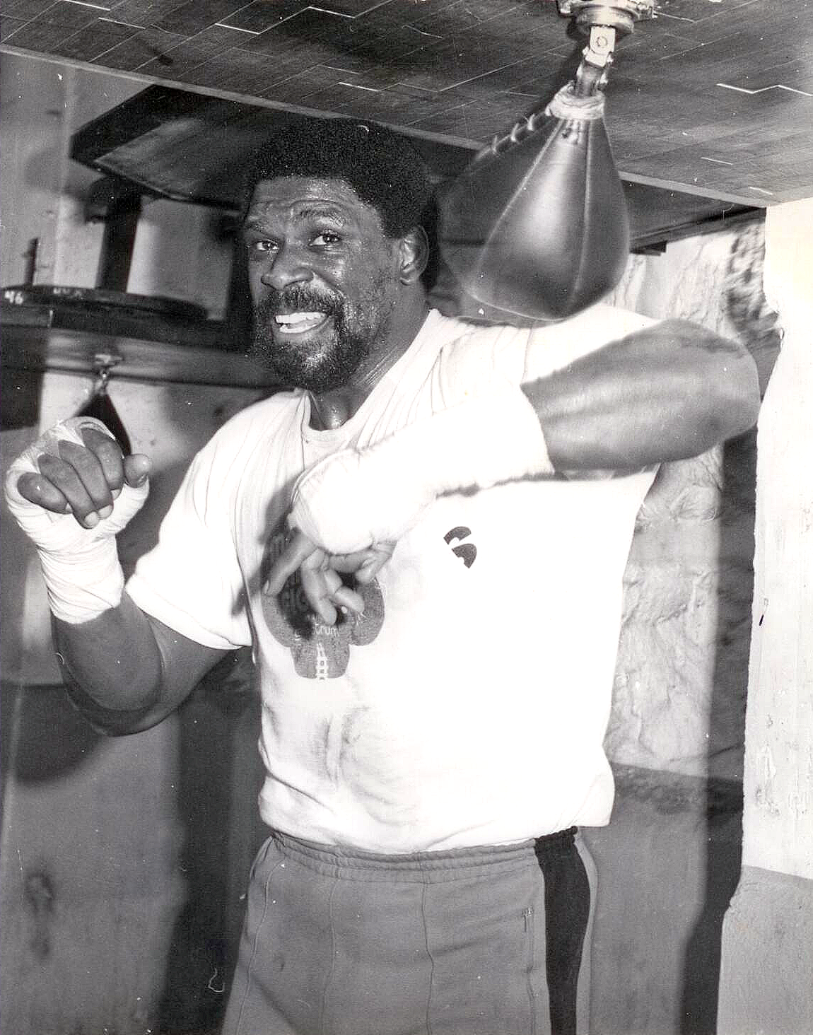 Ron Lyle, Picture taken inside of Canon City State Penitentiary in 1967 after Ron learned to box.